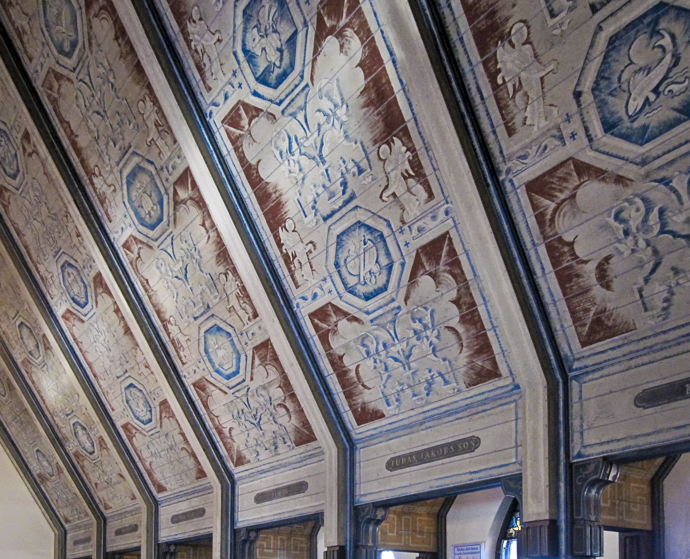 Ceiling of the Saint George Church in Mariehamn, Åland, Finland. Ceiling.